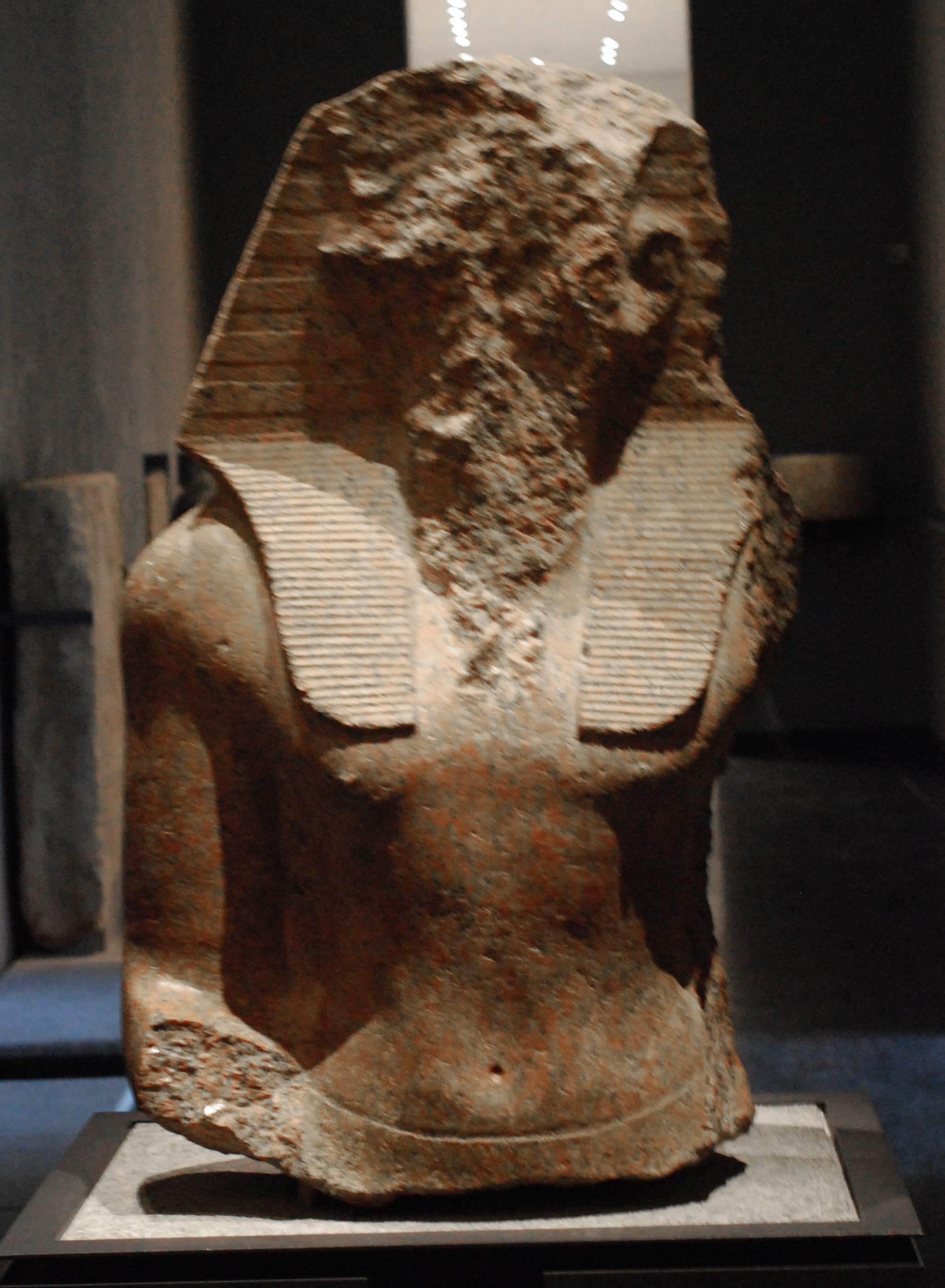 Mutilated Ramses VI statue kept at the Museum of Fine Arts of Lyon.